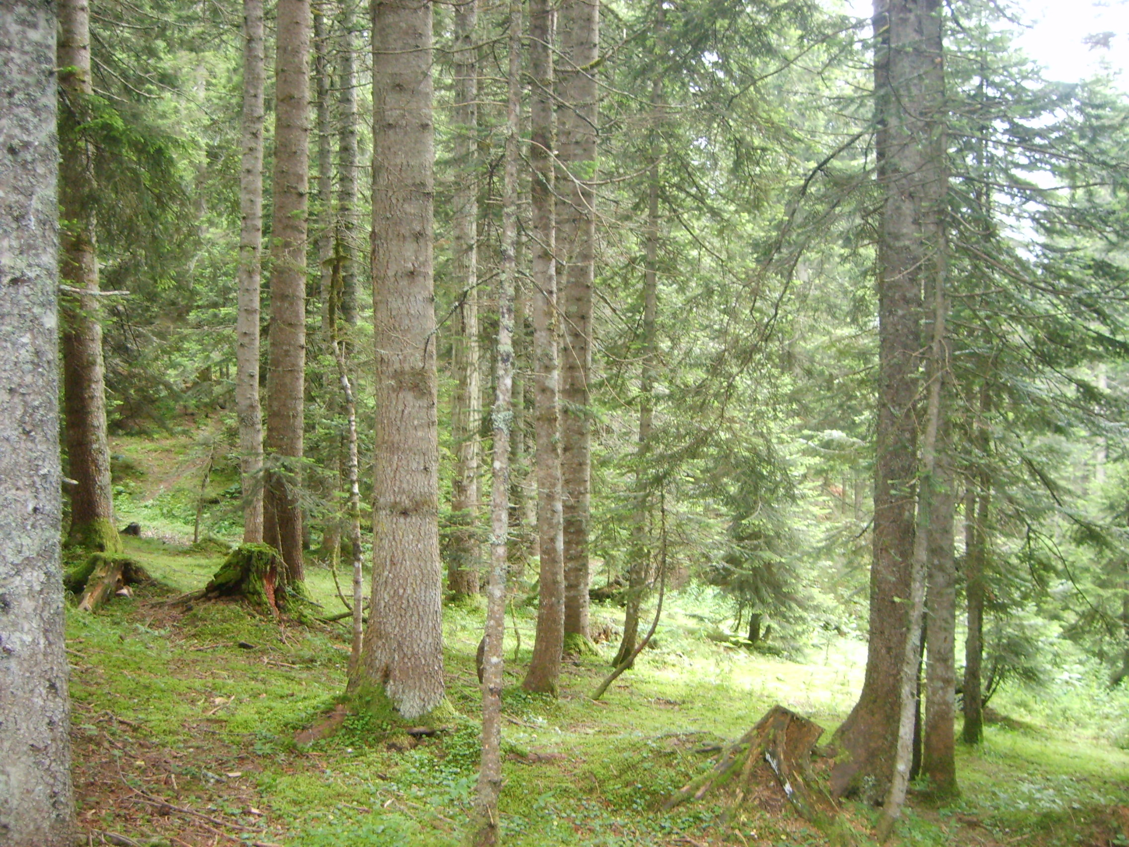 Abies nordmanniana forest in Giresun